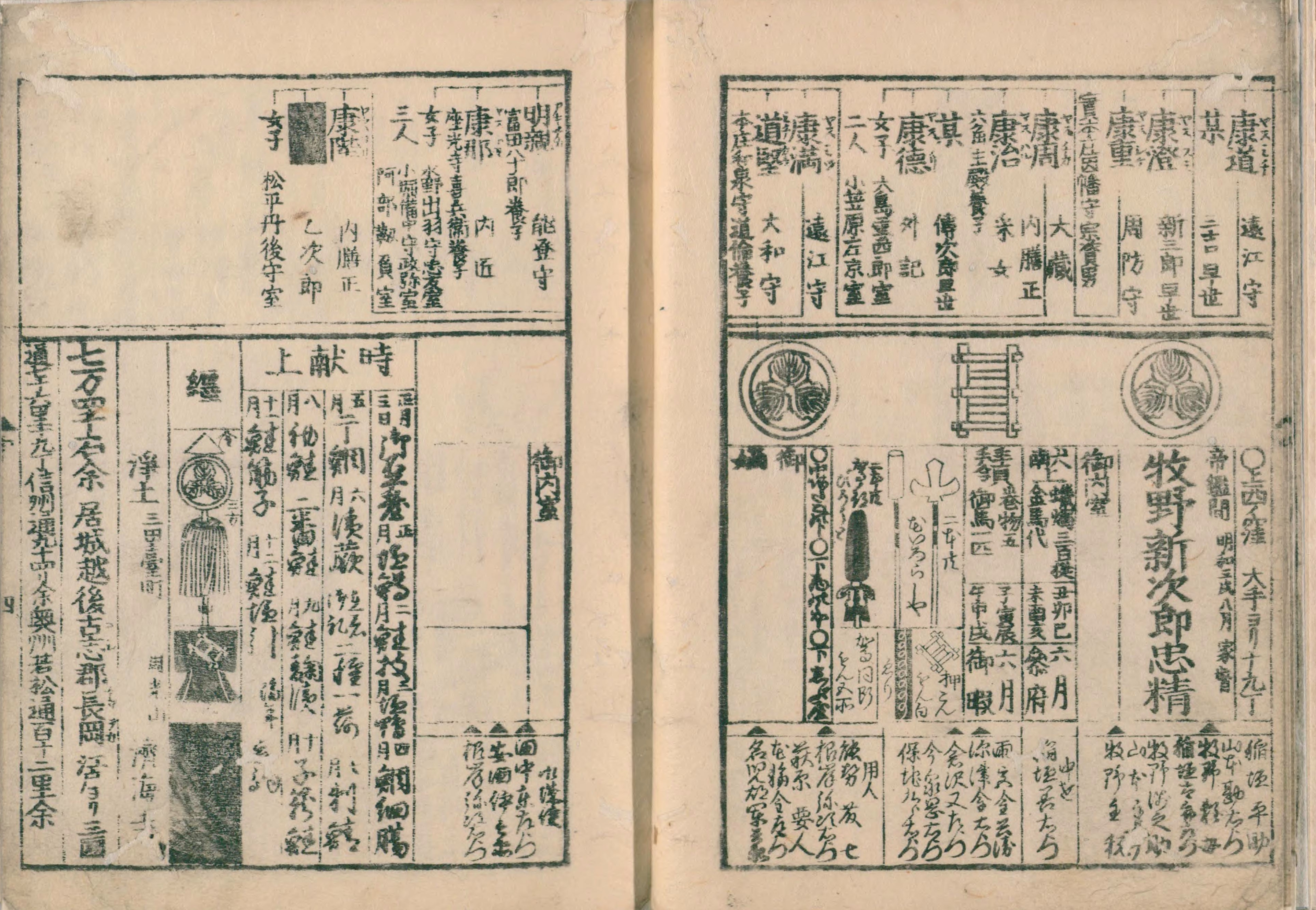 Part about Makino Tadakiyo of Nagaoka Domain in "An'ei 3 nen Daimyō Bukan"